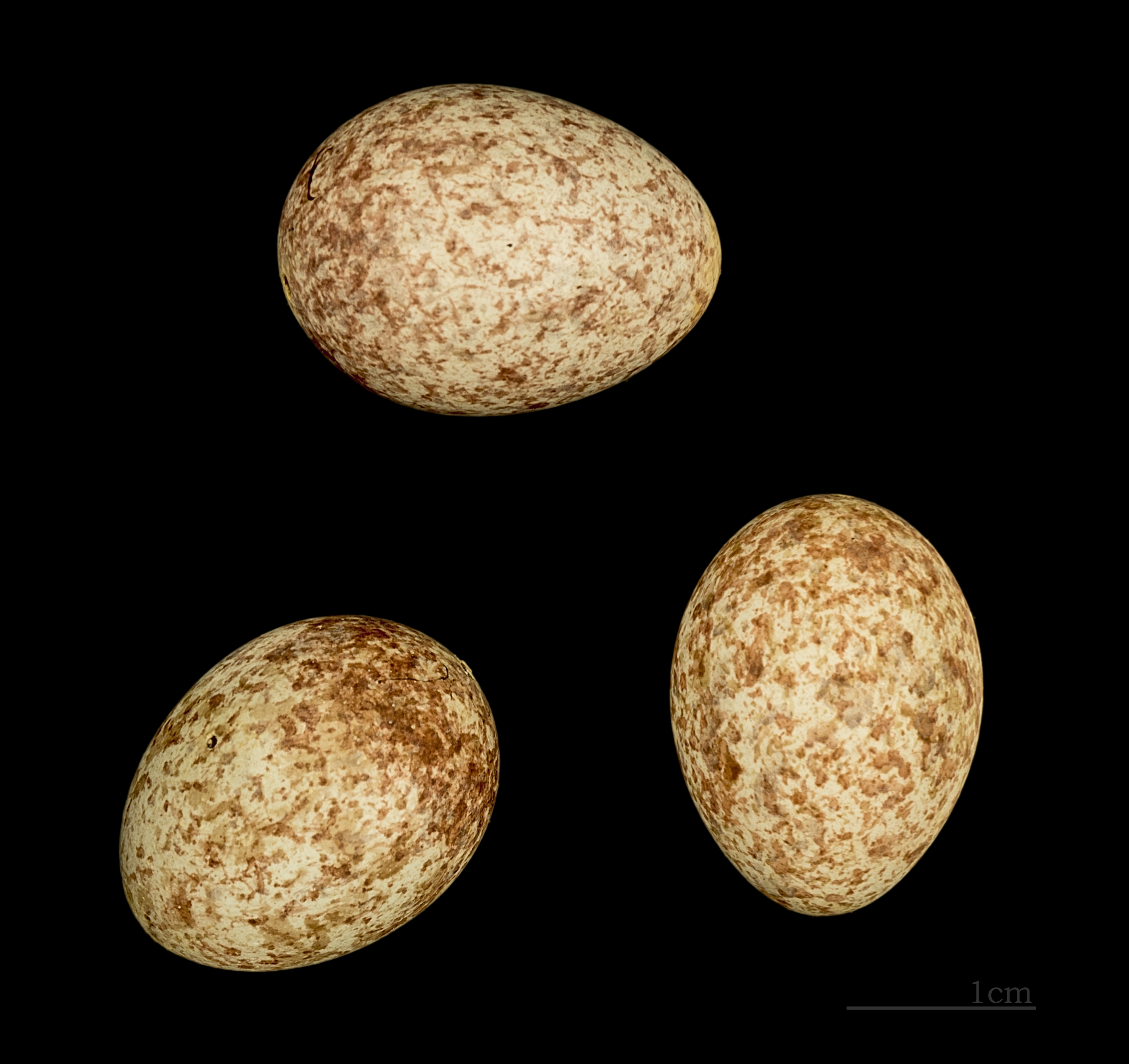 Egg of Chestnut Bunting. Collection of Jacques Perrin de Brichambaut.